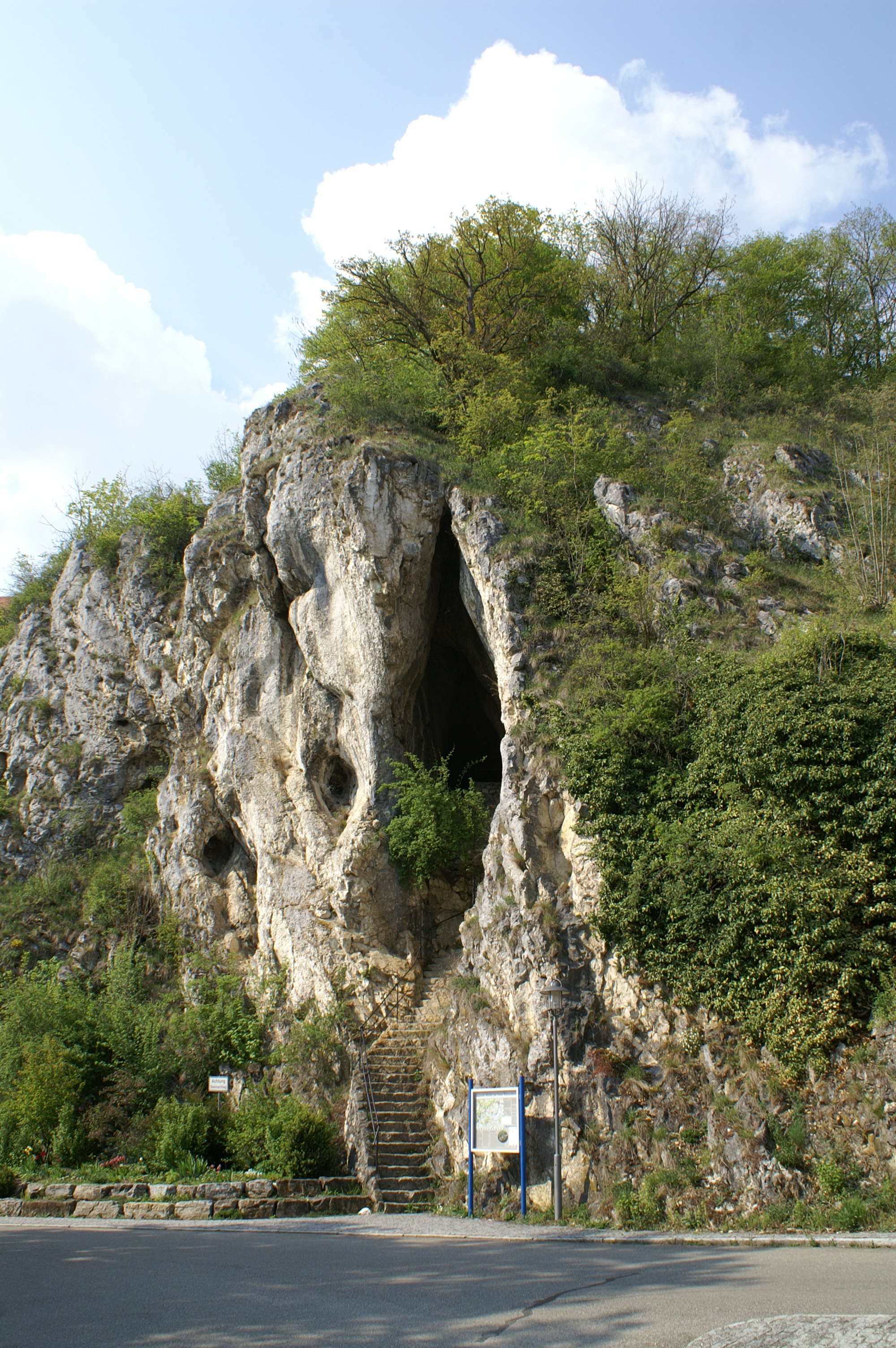 Rechtensteiner Cave